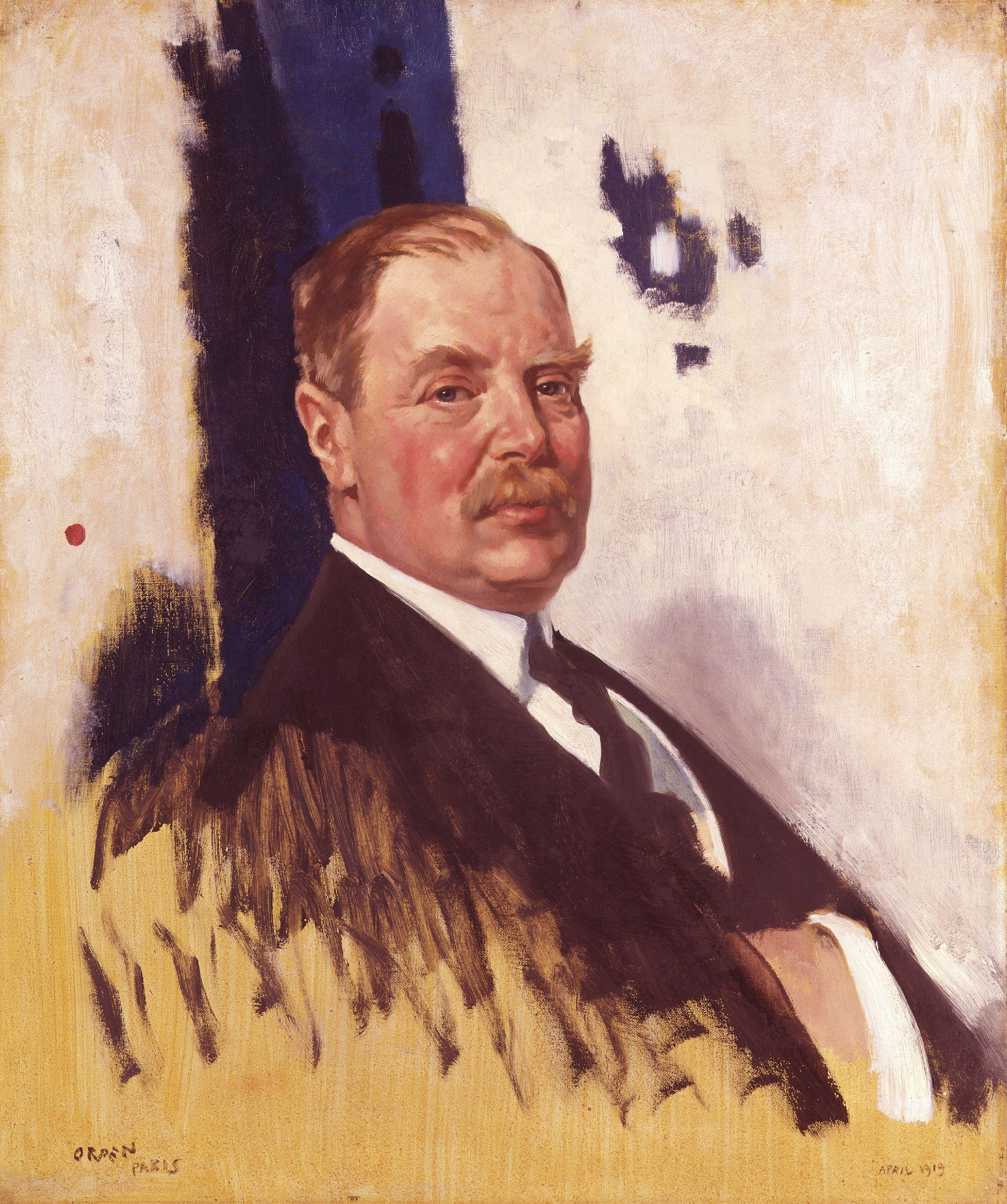 Edward George Villiers Stanley, 17th Earl of Derby, by Sir William Orpen (died 1931), given to the National Portrait Gallery, London in 1960. All images in this batch have been confirmed as author died before 1939 according to the official death date listed by the NPG.